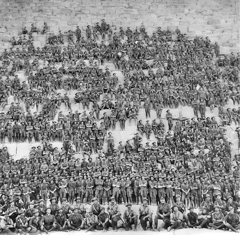 Group portrait of the Australian 11th (Western Australia) Battalion, 3rd Infantry Brigade, Australian Imperial Force posing on the Great Pyramid of Giza on 10 January 1915, prior to the landing at Gallipoli. The 11th Battalion did much of their war training in Egypt and would be amongst the first to land at Anzac Cove on April 25, 1915. In the five days following the landing, the battalion suffered 378 casualties, over one third of its strength.